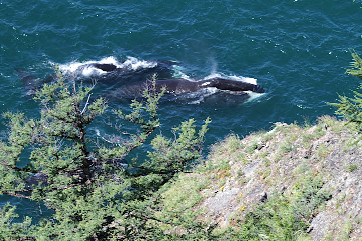 Bowhead whales swimming in Lingolm strait by Vladislav Raevskii